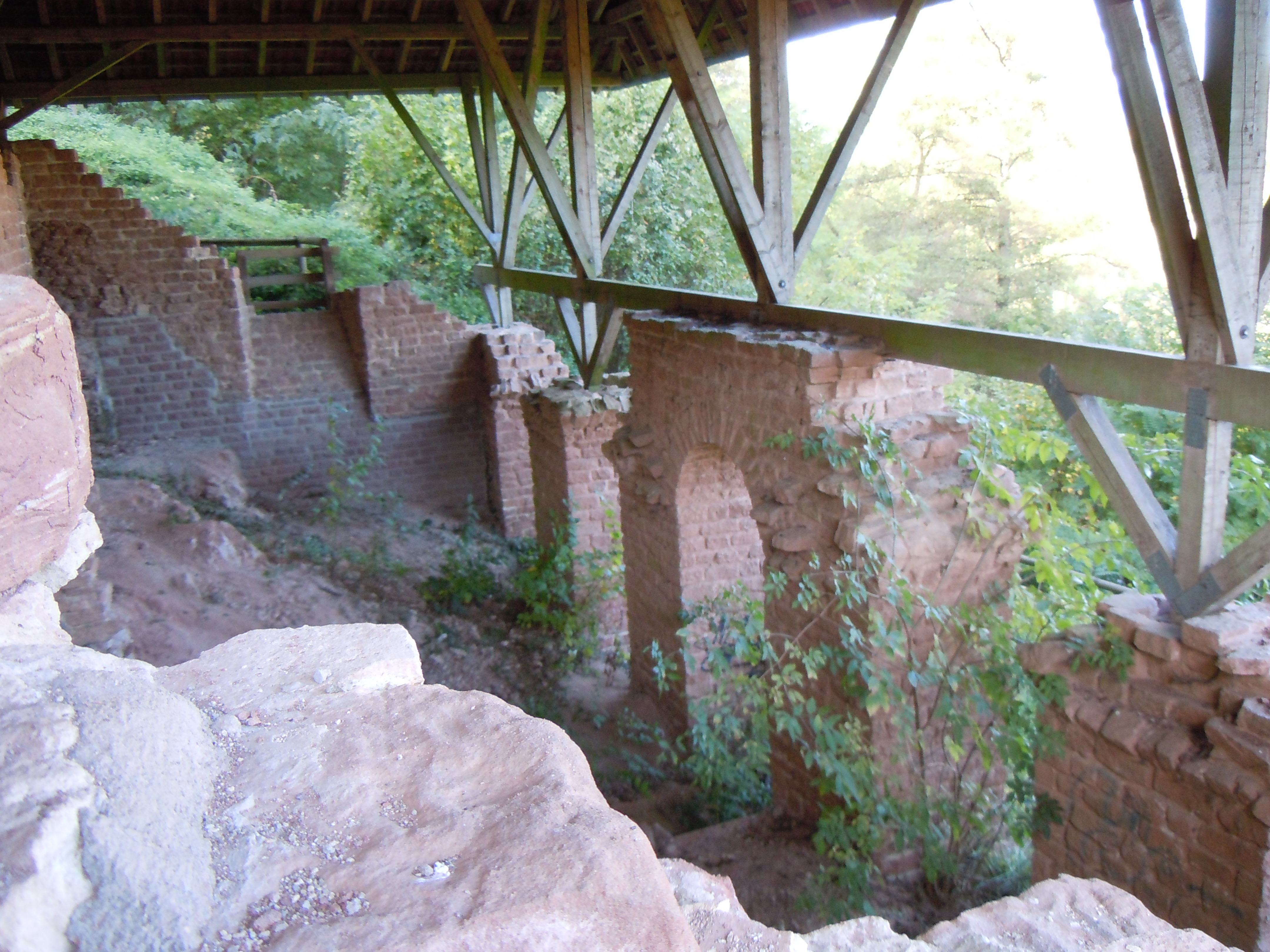 Ancient Roman Village in Wittlich.